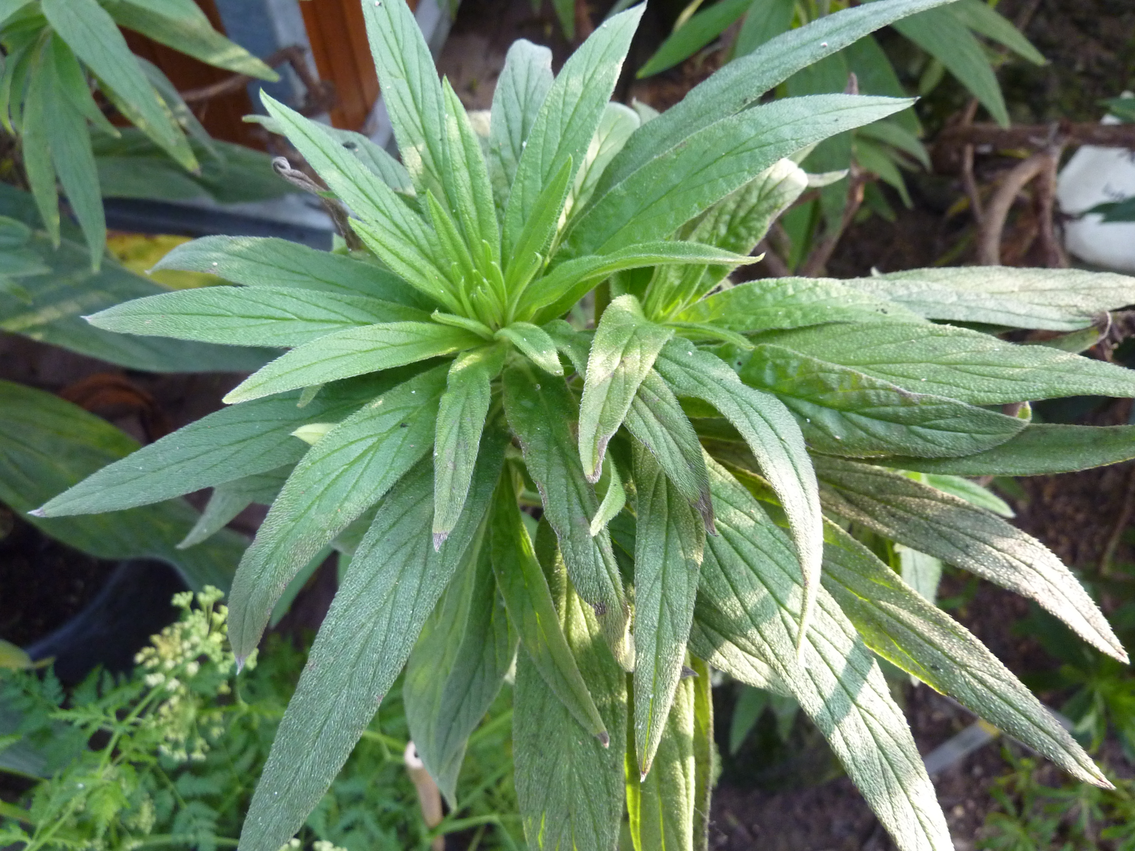 Echium onosmifolium in the Berlin Botanical Garden